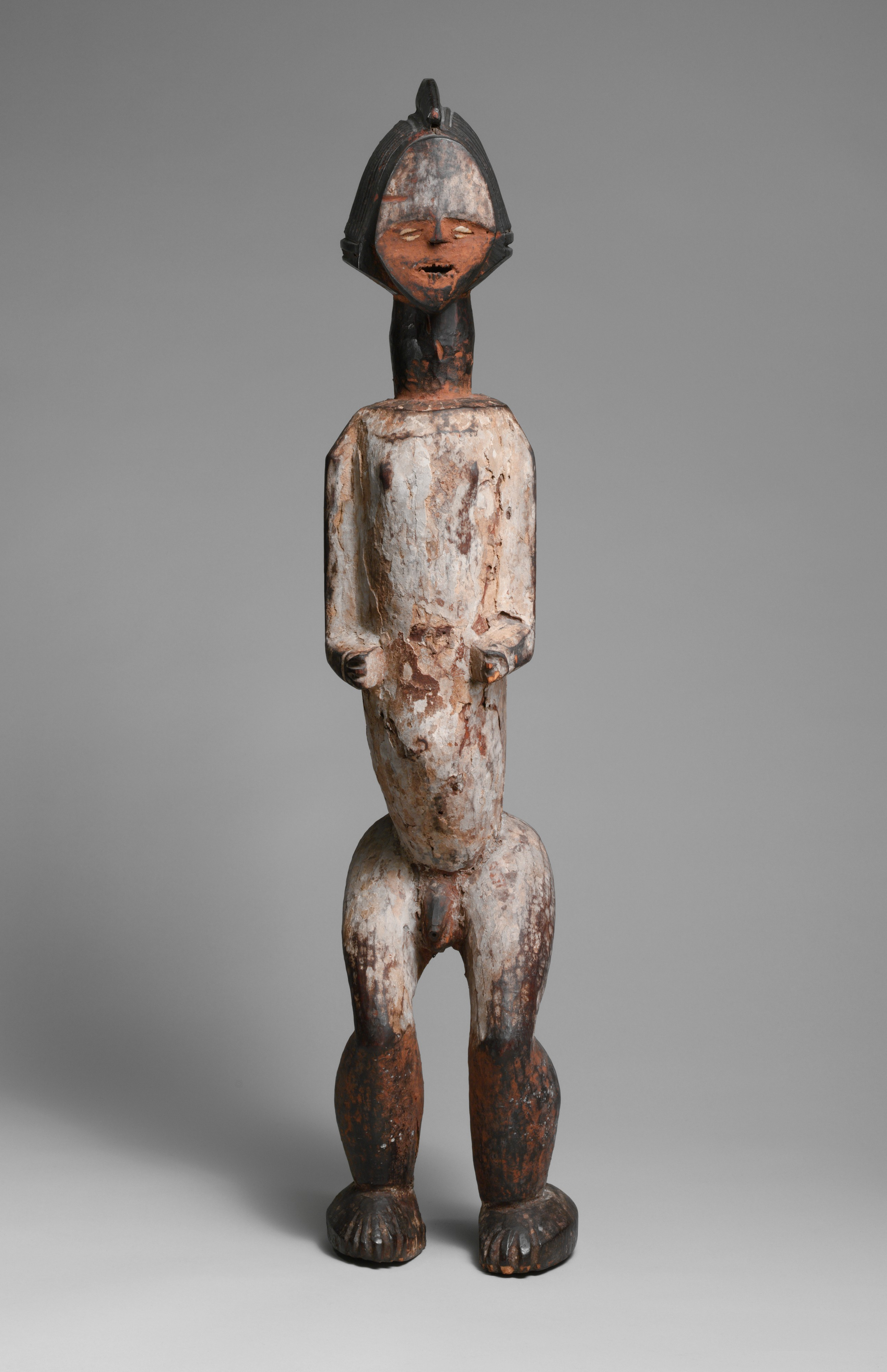 Kota peoples, Mbete group; Reliquary figure; Wood-Sculpture